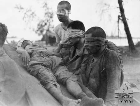 Japanese prisoners of war who were captured by the Australian 9th Division at Brunei while being transported under guard to the division's POW camp on Labaun island.